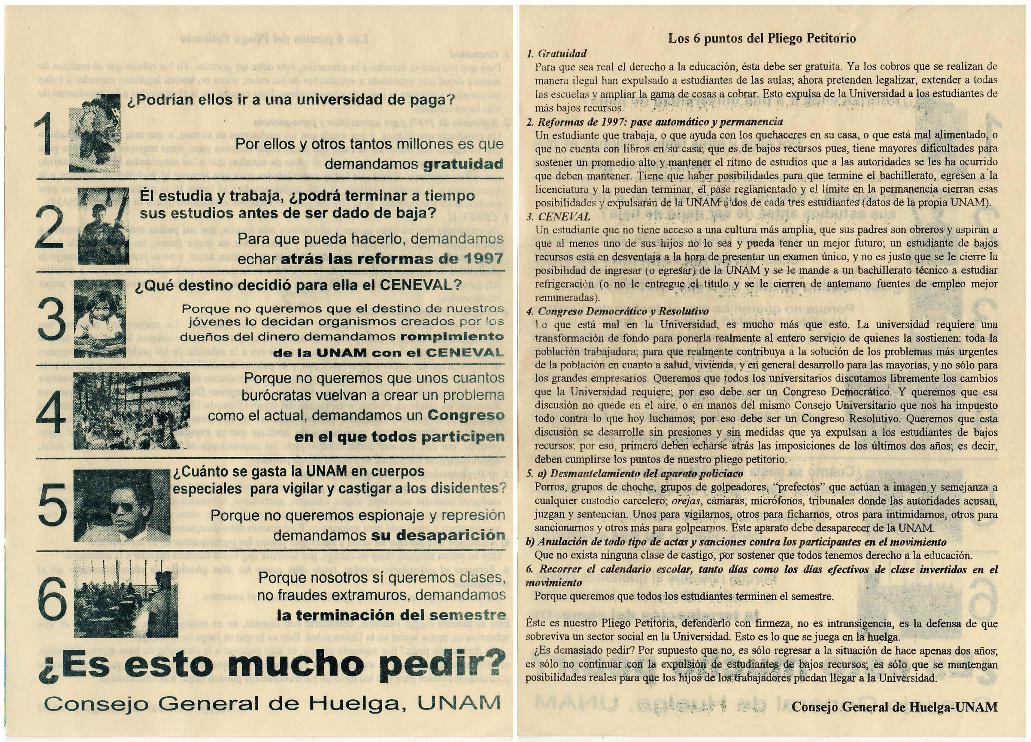 CGH information papers. The six request points of the movement.